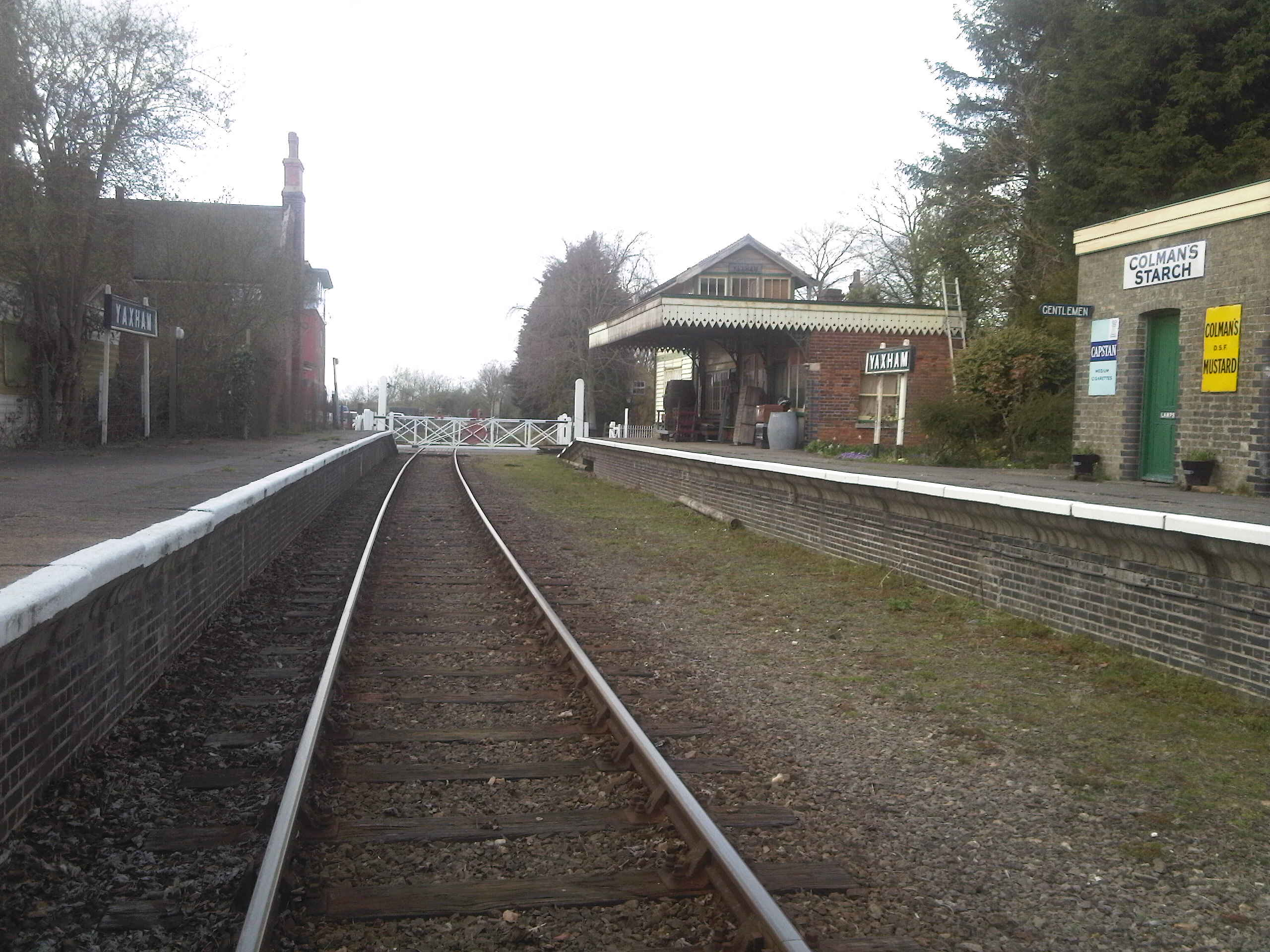 Yaxham station - looking towards Dereham. (PTS holder took photo)